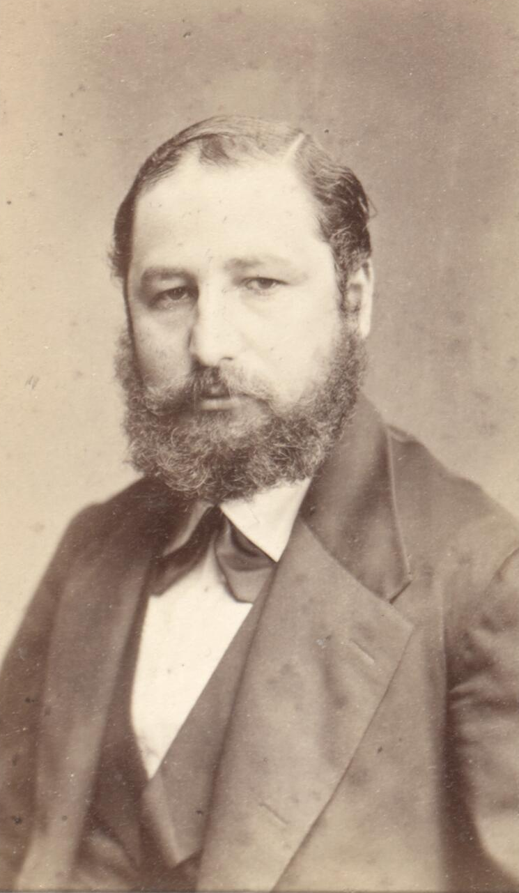 Plate 07 Photograph album of German and Austrian scientists. Berlin I: Professor L. Waldenburg.